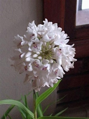 A work released per the GNU Free Documentation License by: Martín Javier Battiti de Tegucigalpa, Honduras